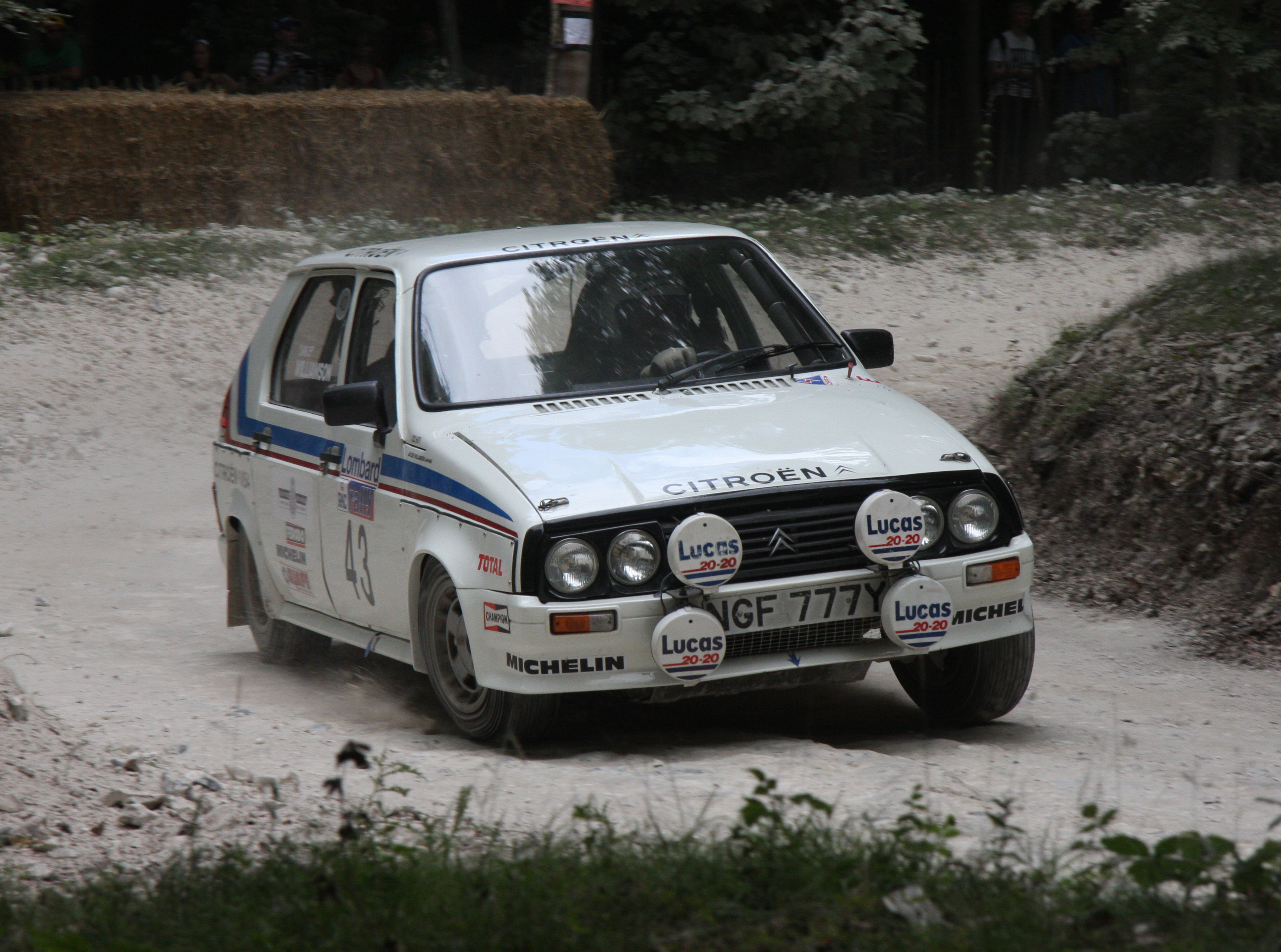 Citroën Visa chrono at goodwood